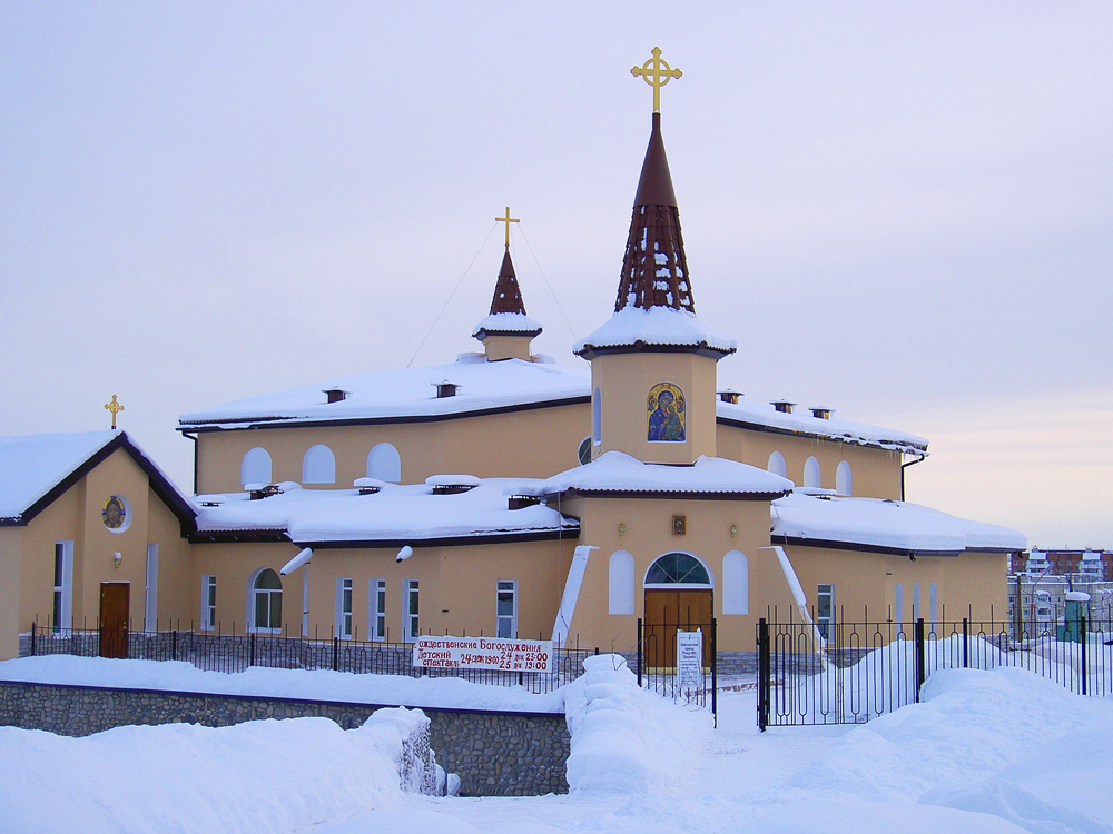 Author: David Means, Magadan, Russia Church of the Nativity, Magadan, Russia